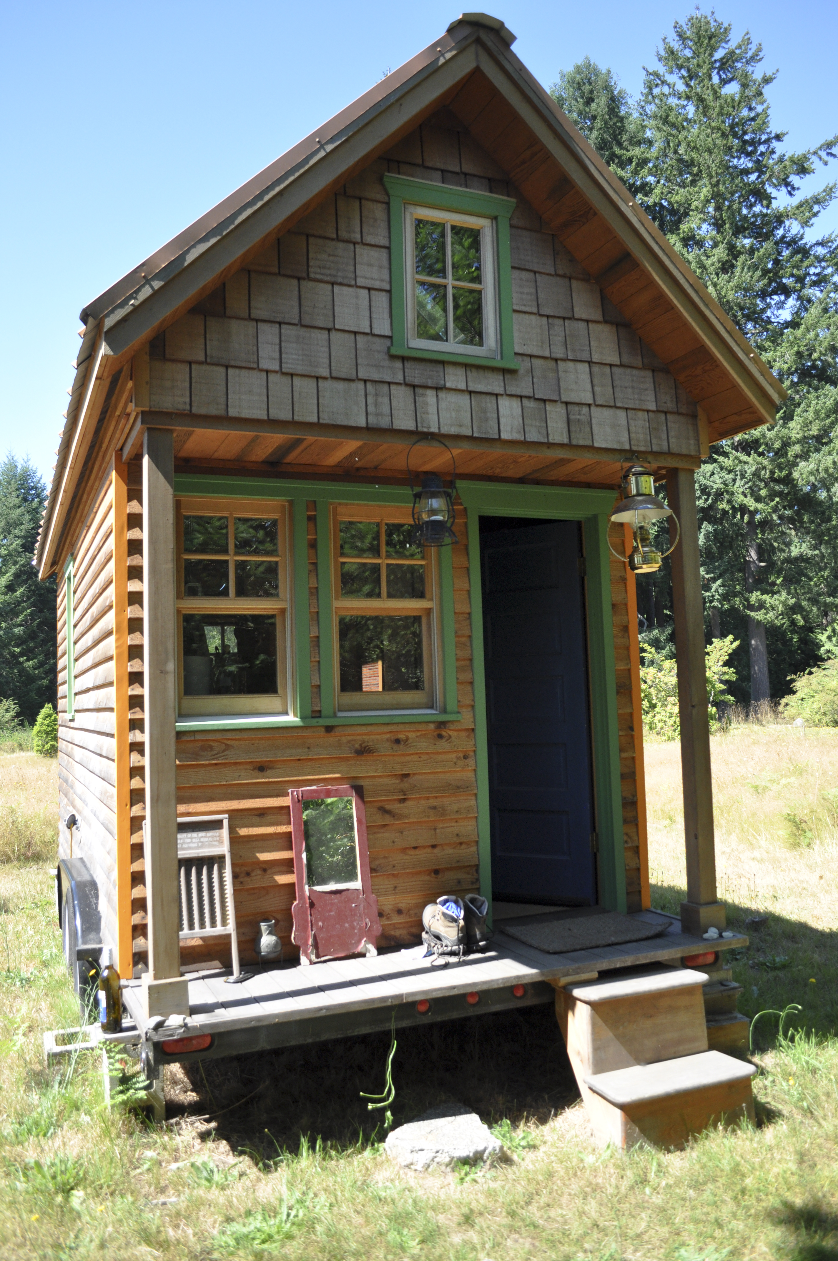 A tiny mobile house in Portland, Oregon.